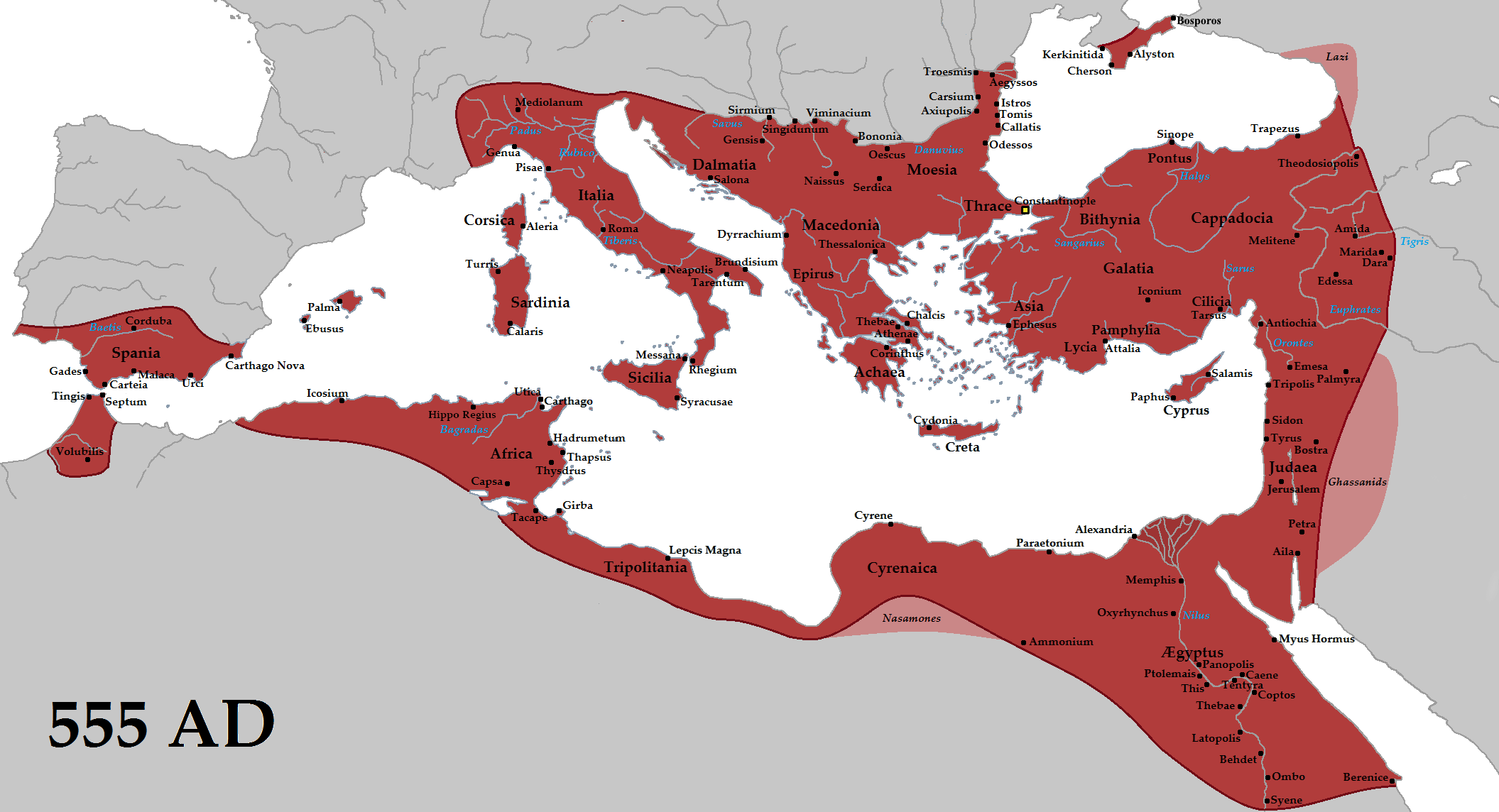 The Eastern Roman Empire (red) and its vassals (pink) in 555 AD during the reign of Justinian I.